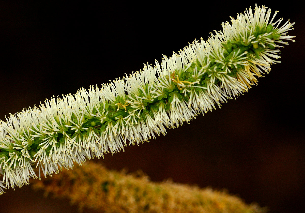 Entada rheedii Spreng. - flower spike - along path from Chitengo Camp to Pungwe River, Gorongosa National Park, Mozambique